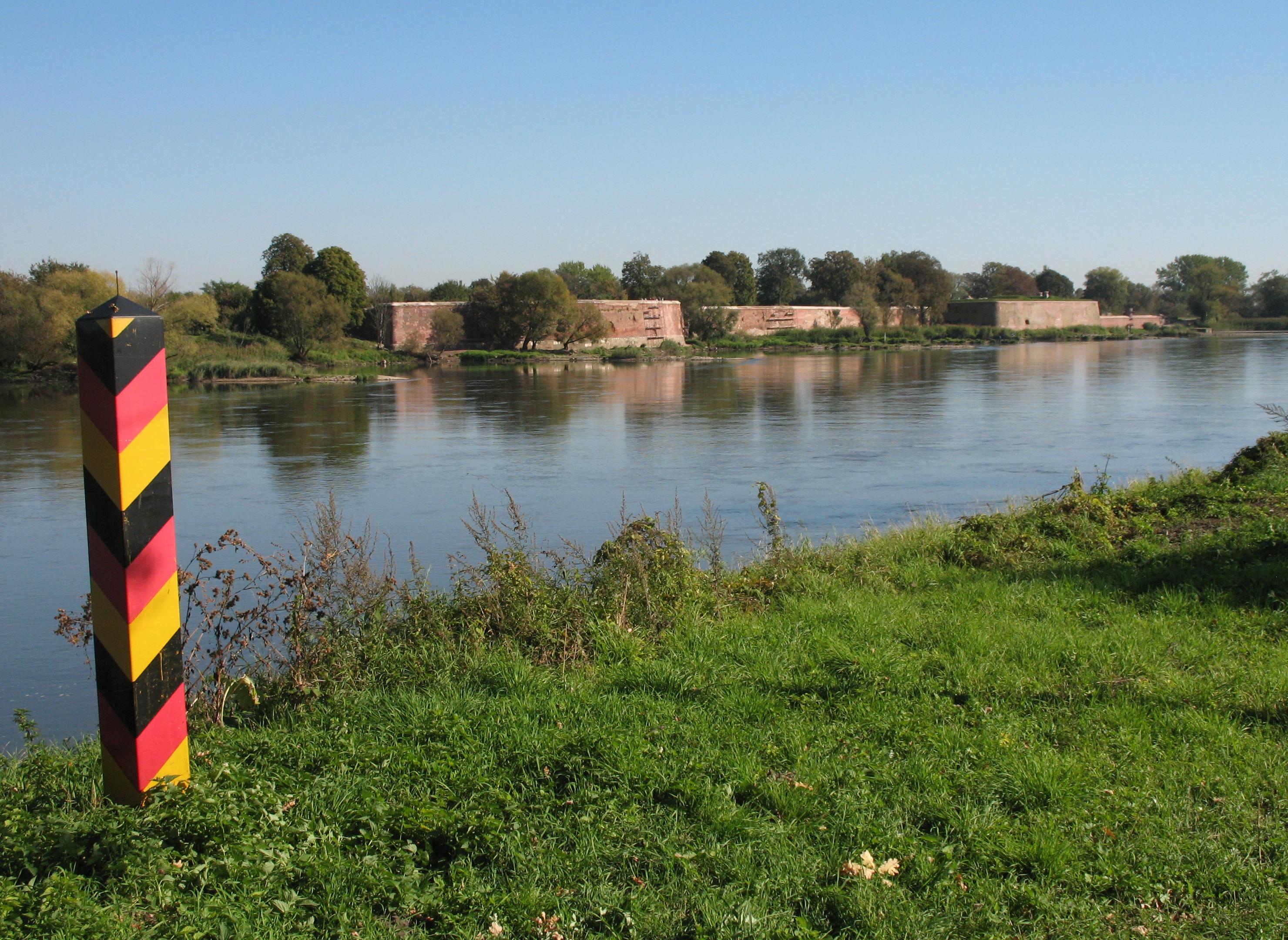 View from Küstrin-Kietz in Brandenburg, Germany, across the Oder River to the fortress of Kostrzyn nad Odrą, Poland